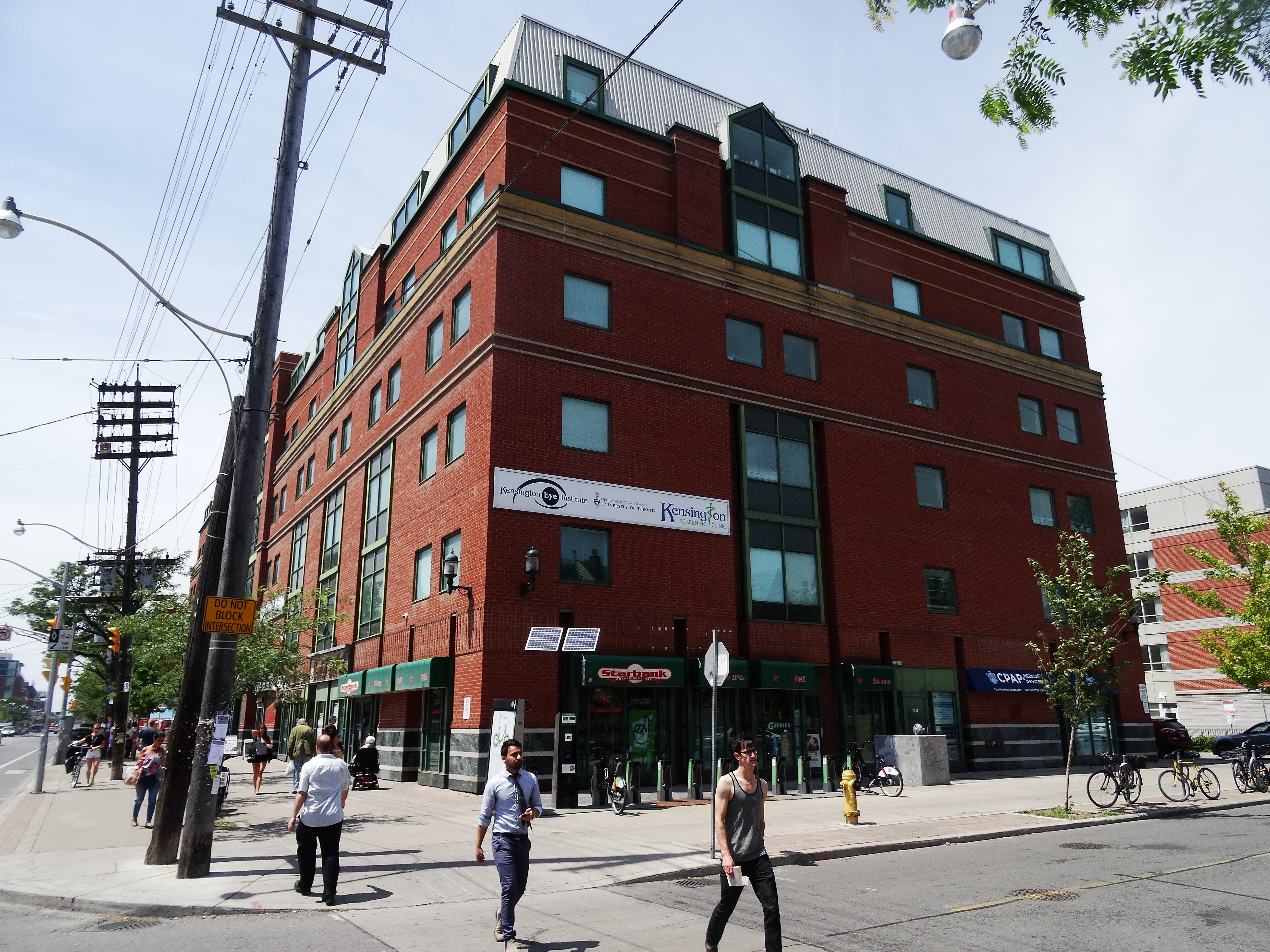 Formerly 'Doctor's Hospital', on College, 2016 07 21 (1).JPG